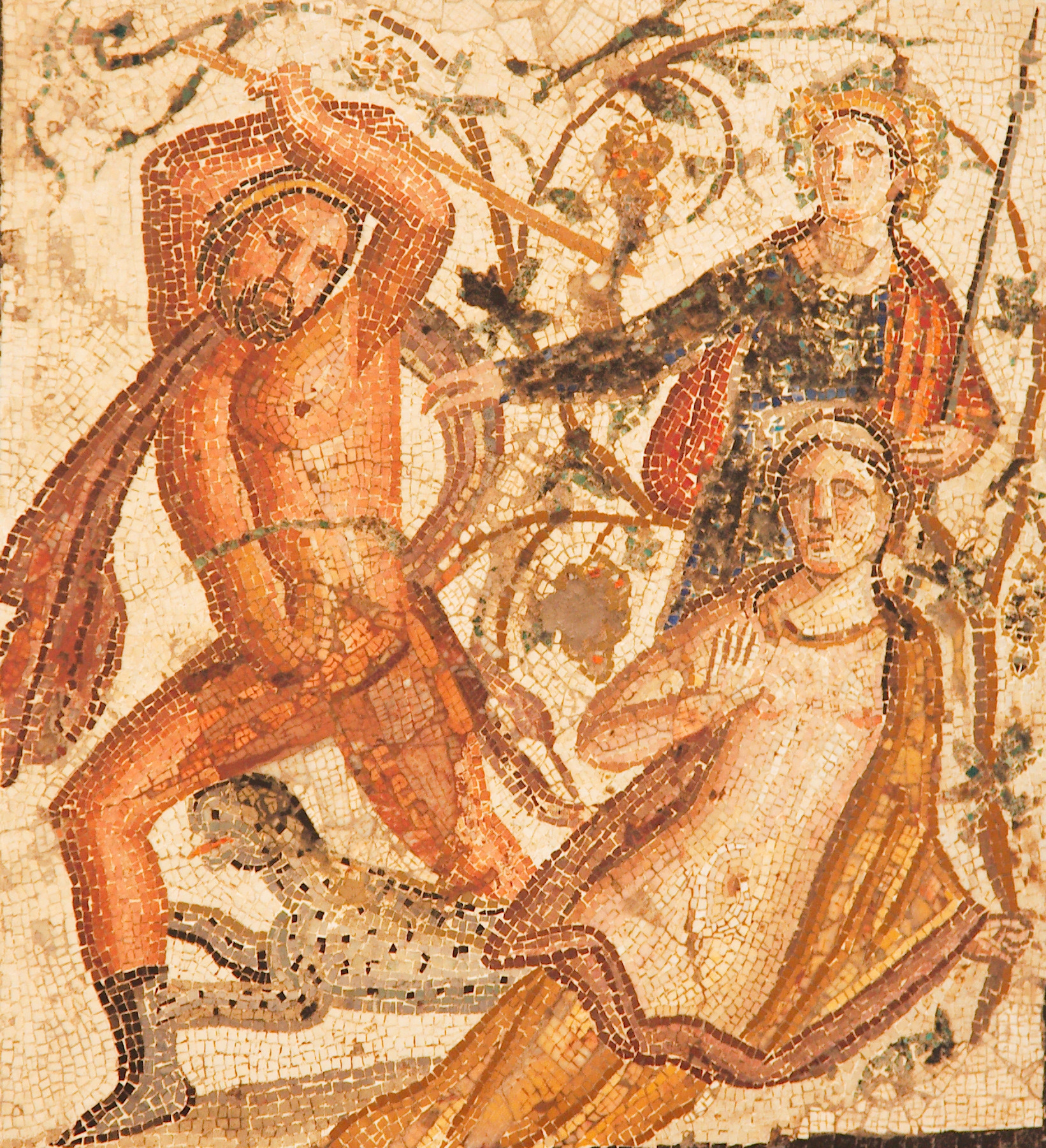 Mosaic from Herculaneum, in the Museo Archeologico Nazionale in Naples (inv. 9988).